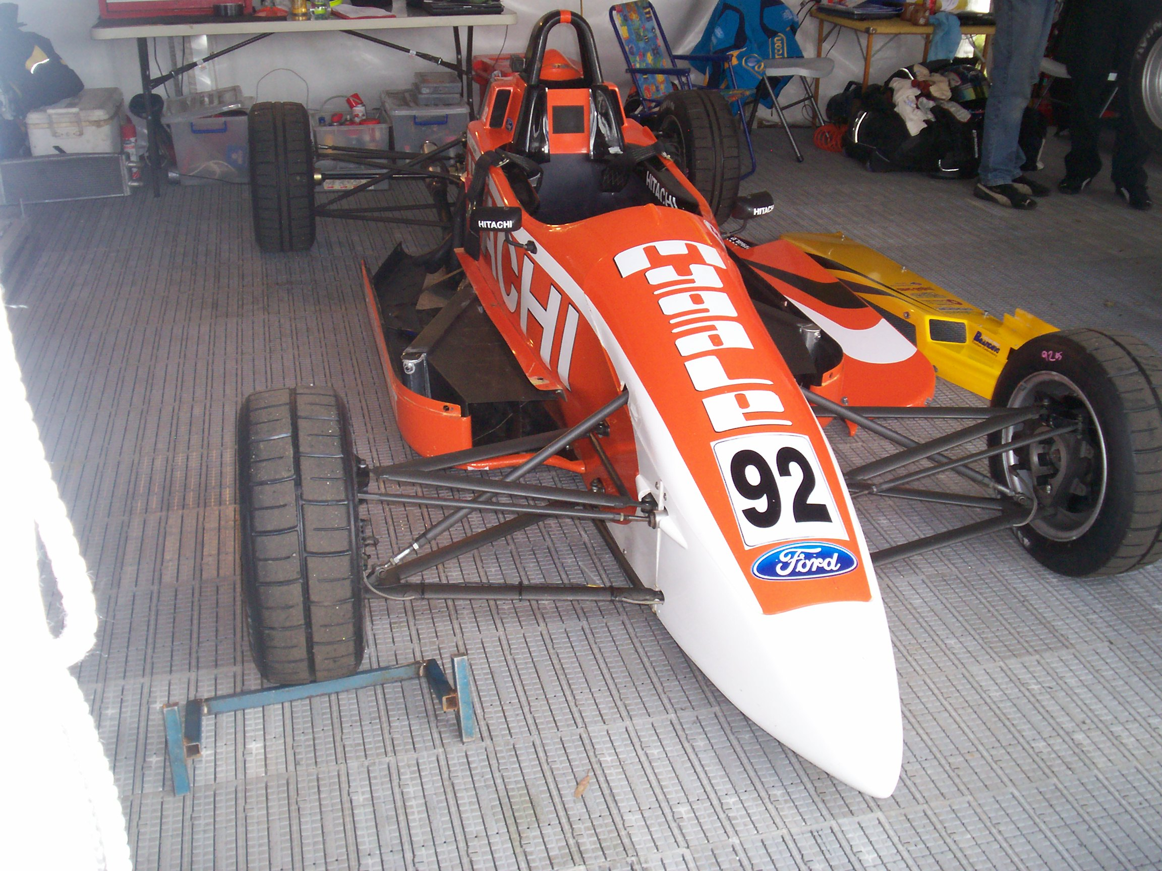 Taz Douglas Formula Ford in the Pits at Sandown. After Race 1